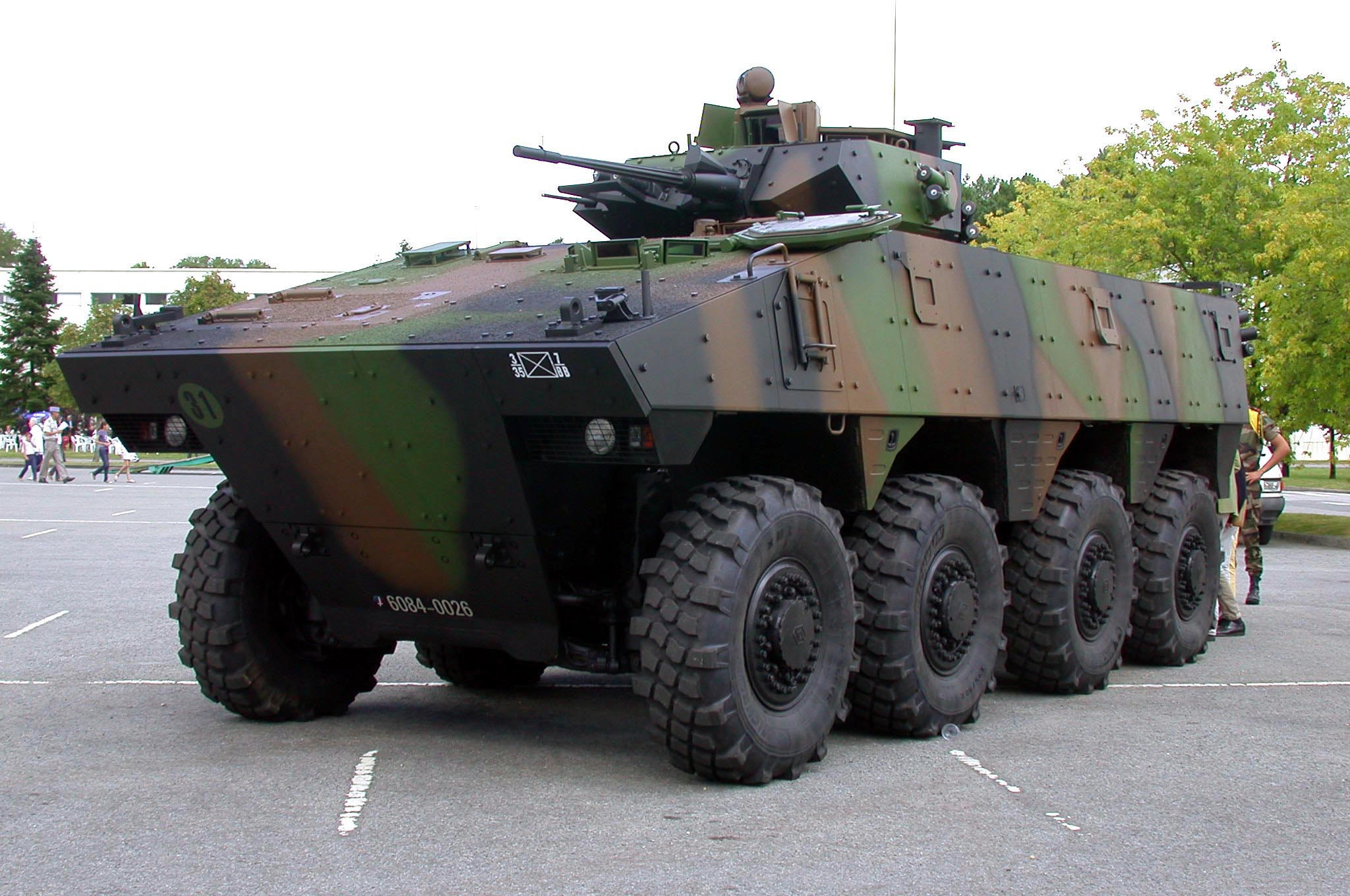 VBCI (armoured combat Vehicle of infantry); Guer, Ille-et-Vilaine.